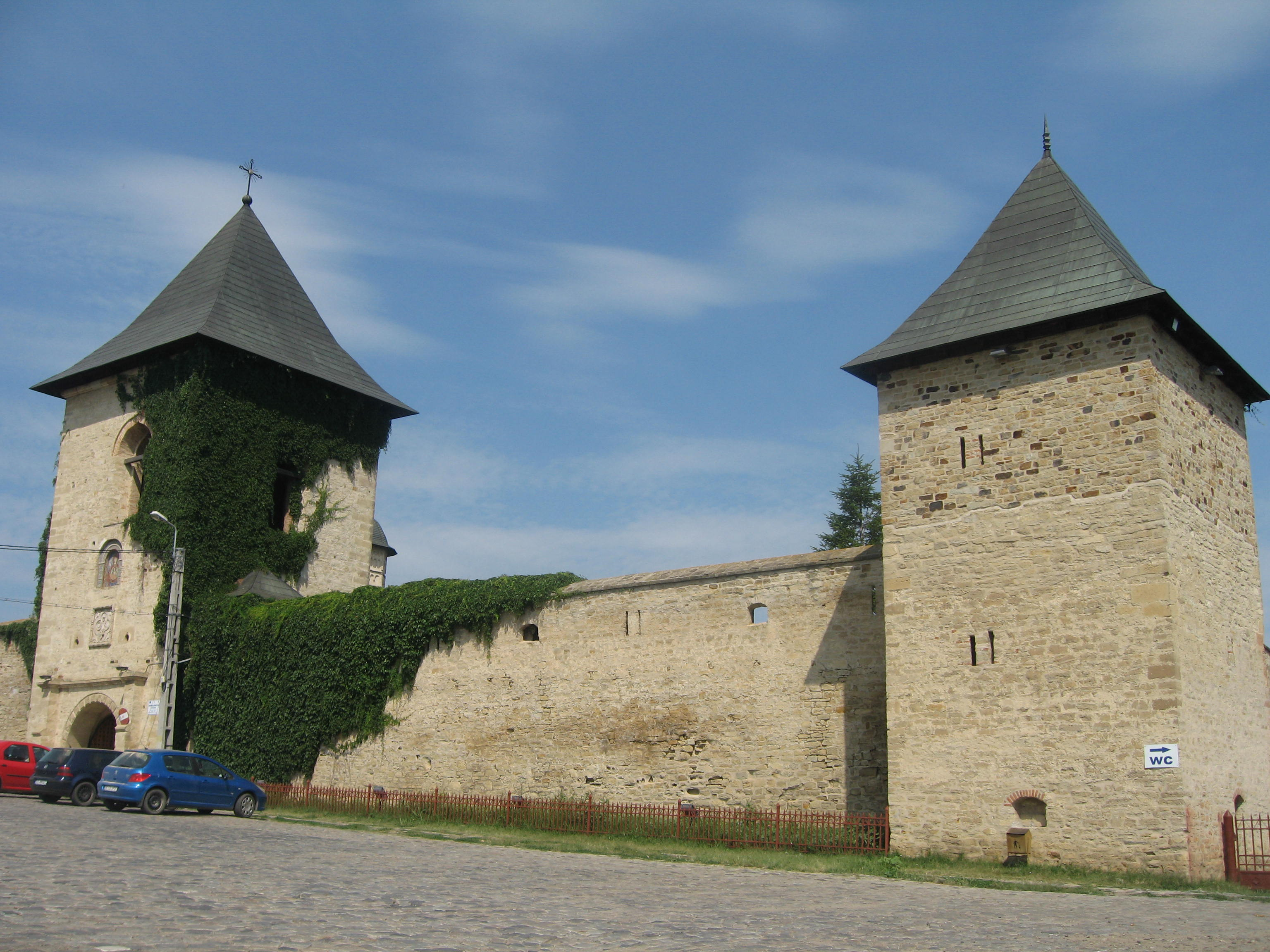 Mănăstirea Cetăţuia